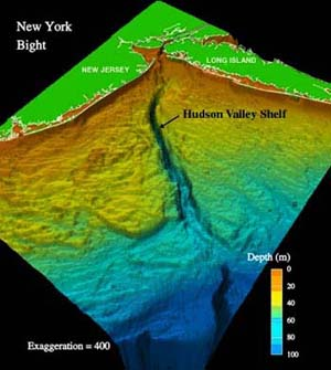 From NOAA website, should have no copyright problems.